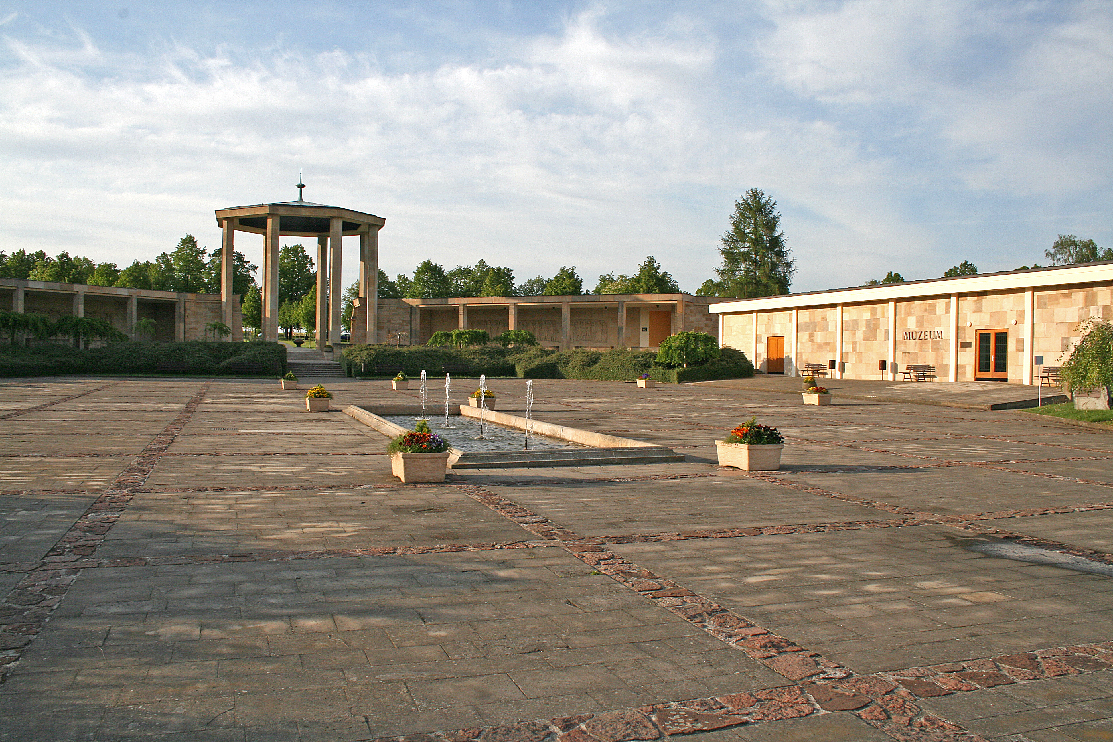 memorial place Lidice / Czech Republik. On the right side is the museum.